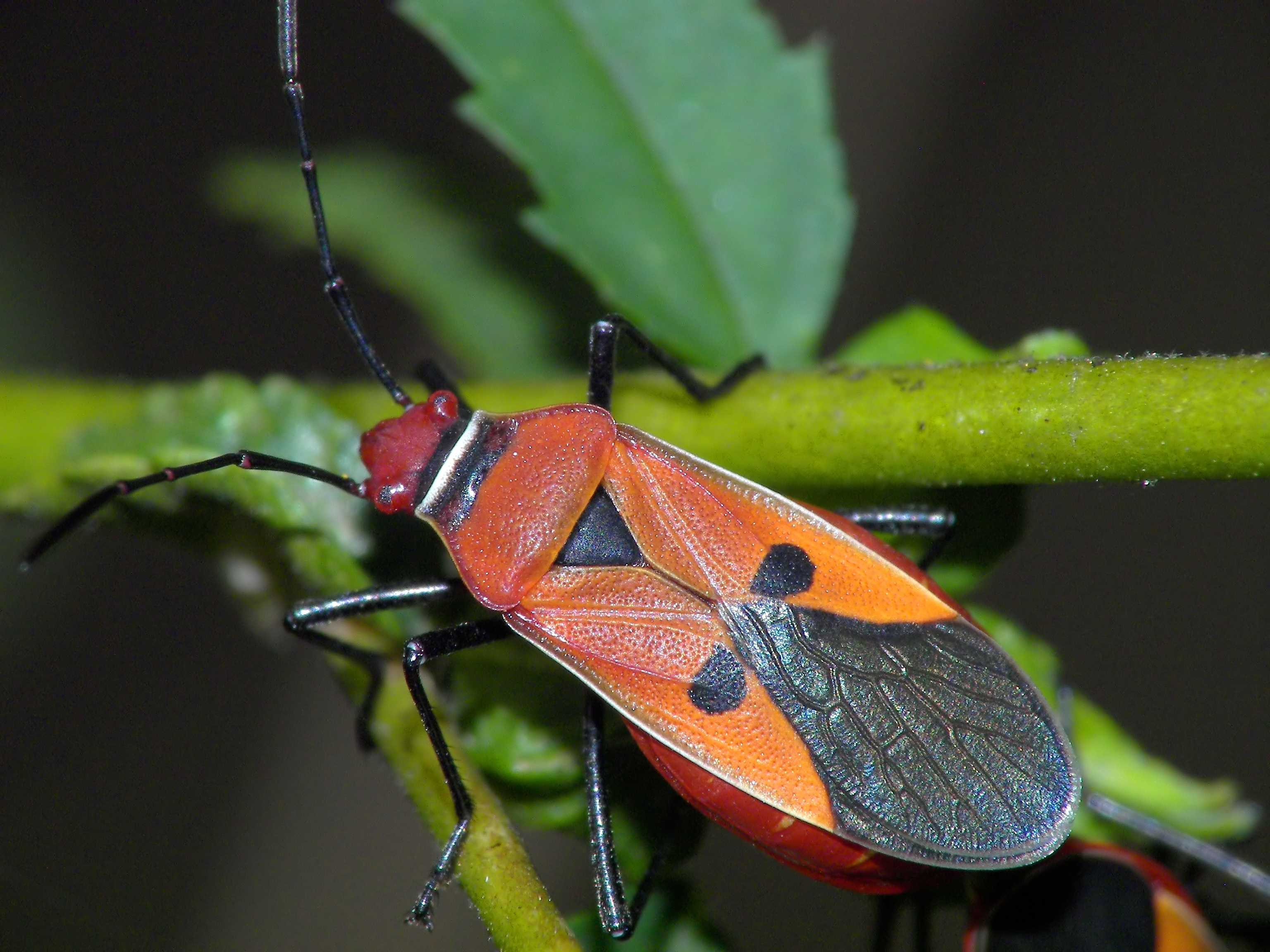 Saw at hill side.